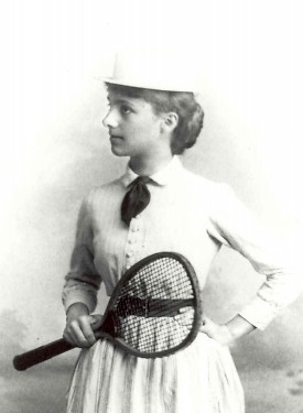 photo of tennis player Ellen Roosevelt